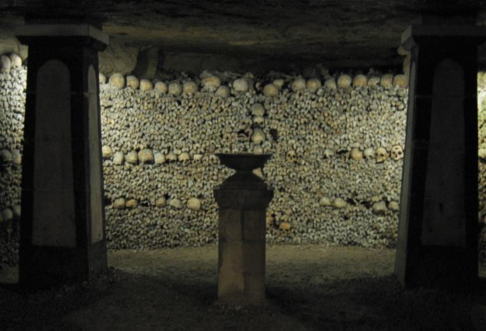 Catacombs of Paris, 700 pixels wide. Photograph taken by Michael Reeve, 30 January 2004.